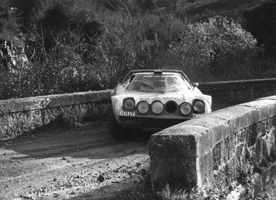 Anna Cambiaghi and Maria Grazia Vittadello with a Lancia Stratos were entry #22 in Rally Costa Smeralda on 4–7 April 1979, where they ended in 7th plaze.[1] This may be that car.